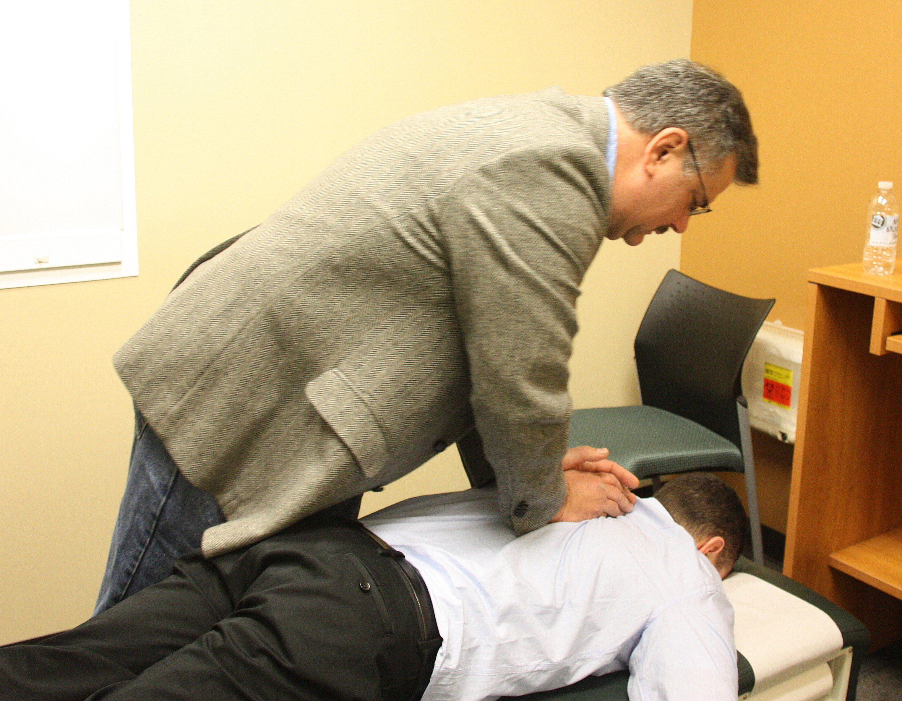 Jim Dubel demonstrating adjustment protocals